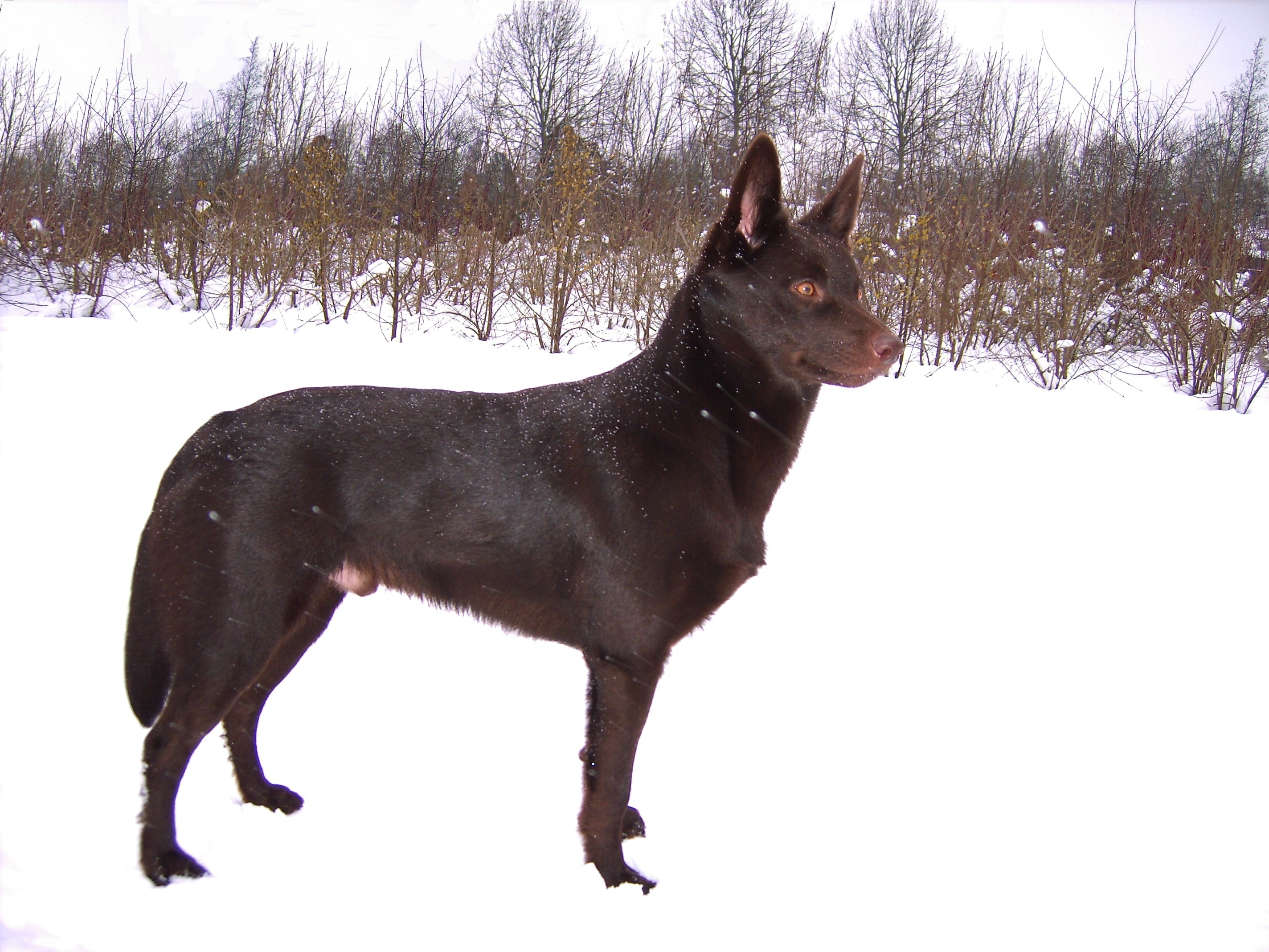 Australian Kelpie: Yirr-ma Bashyr of the Two Chestnuts, 15 months old. Photo taken by Daphne Geerlings, March 2005, The Netherlands. For more information, visit our website: Voor meer informatie, bezoek onze website: categorie:Afbeelding hond